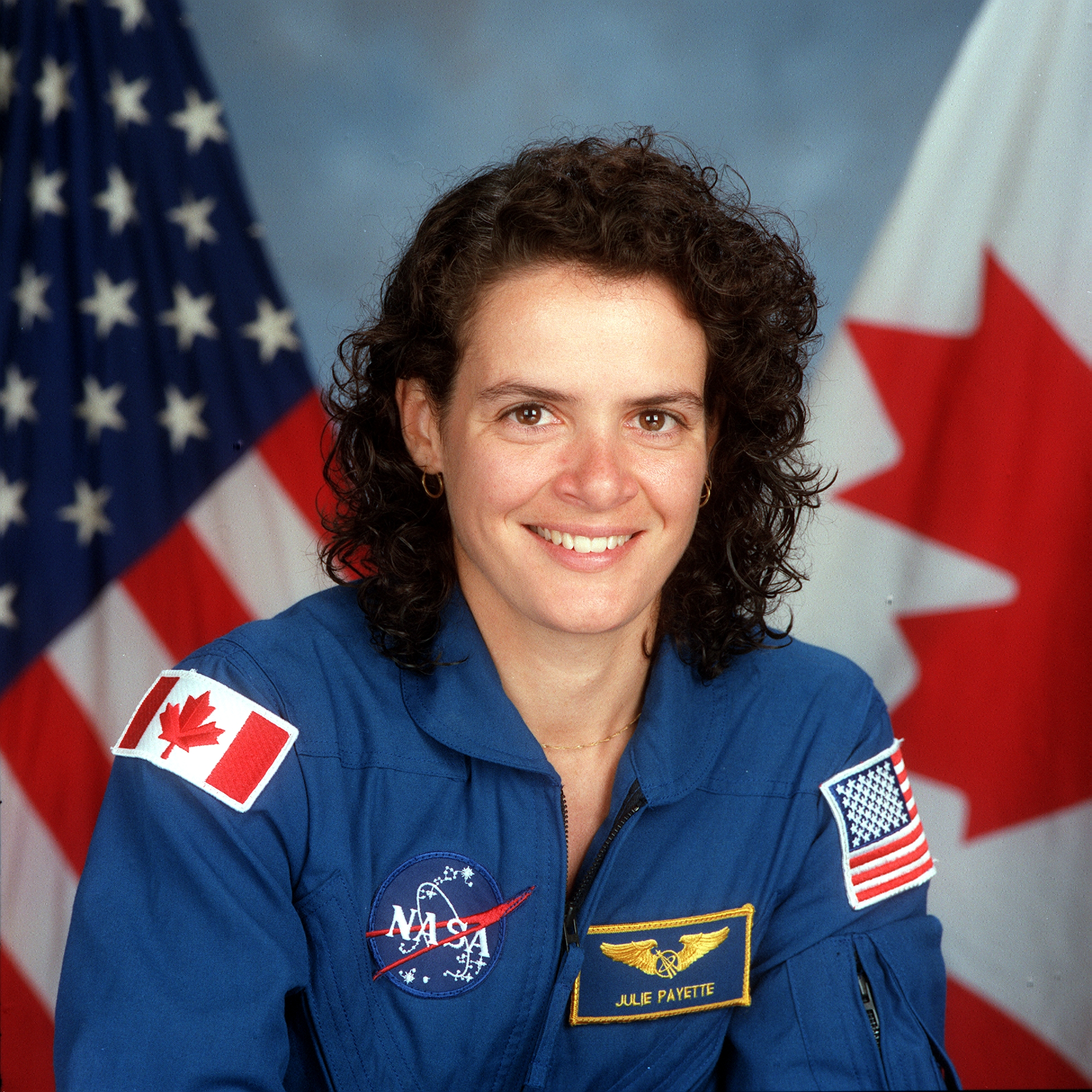 International astronaut Julie Payette, mission specialist, representing the Canadian Space Agency (CSA).